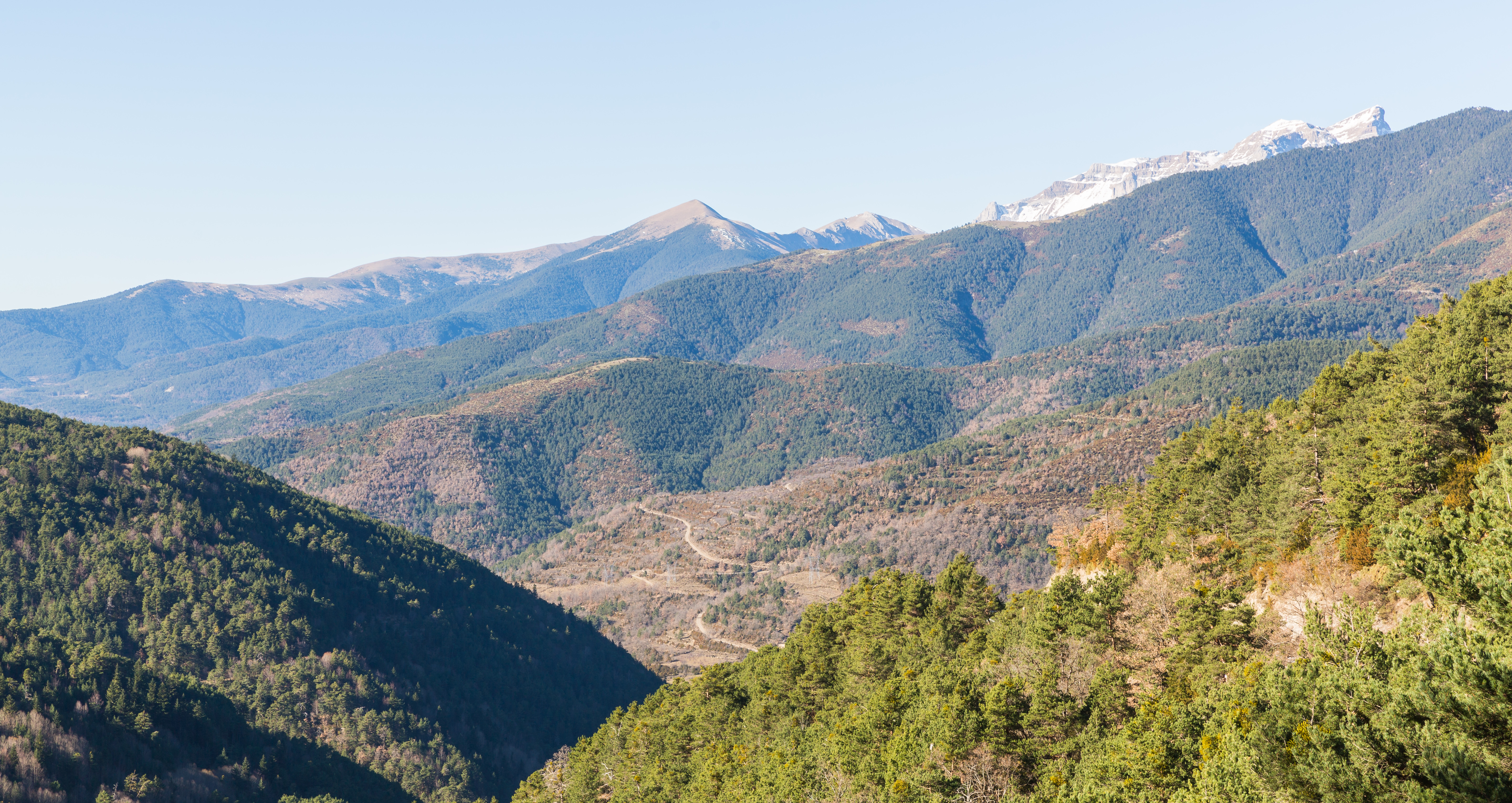 Pass of Cotefablo, SCI Pass of Otal - Cotefablo, Huesca, Spain.